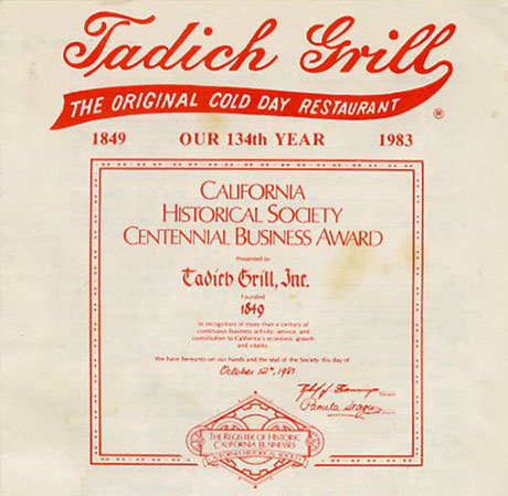 Repository: California Historical Society Digital object ID: CHS2013.1428 Call number: MENU COL Collection: California menu collection Date: 1983 Preferred citation: Menu, Tadich Grill, San Francisco, California menu collection, courtesy, California Historical Society, CHS2013.1428.jpg. Online finding aid